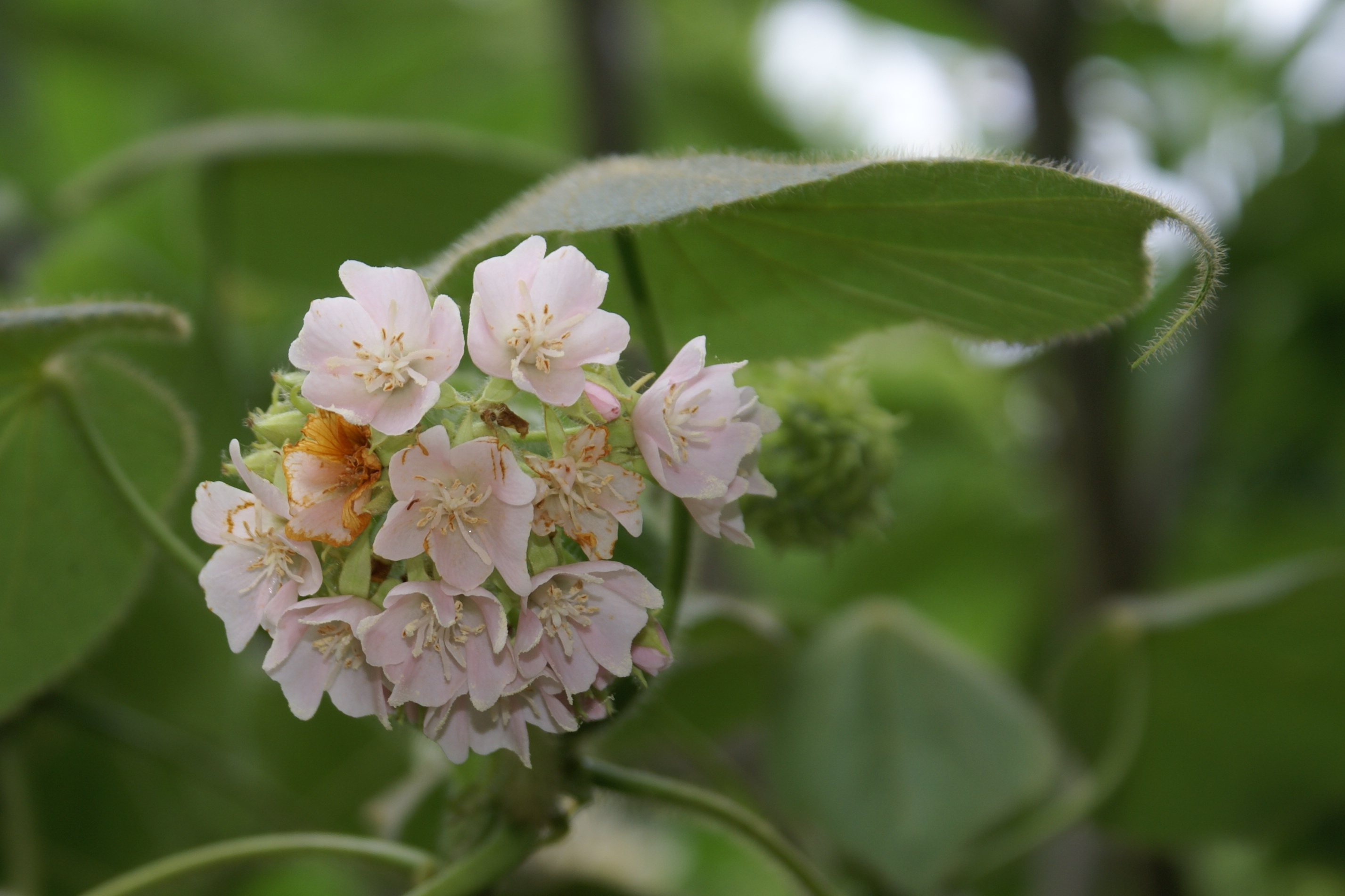 Flowers of Dombeya pilosa, a tree endemic to Réunion island